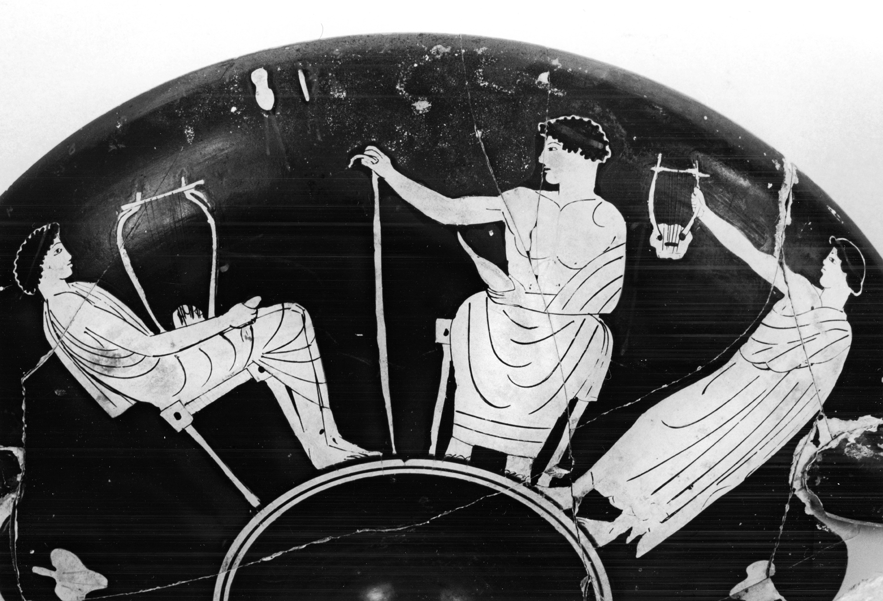 This red-figure kylix depicts a woman standing to the left in the tondo. She extends her right hand in which she holds a length of a wool that comes out of a kalathos on the ground before her. Behind on the upper right hangs a mirror. She wears a chiton, mantle, and fillet. On the front side are three youths in a music lesson. On the left, a youth sits to the right on a diphros holding a barbiton upright on his lap with his left hand and a plectron in the right which is attached to the instrument by a string. A bag hangs behind him. An older youth in the center sits frontally on a diphros, head to the left. In his outstretched right hand he has a staff, and in the left he holds a bag on his lap. Between them hangs a pair of sandals, one in profile, the other shown from the bottom. On the right another youth stands to the left, holding out a lyre in his right hand; a plectron hangs from a string attached to the lyre. All three wear a mantle and fillet. On the back three youths are again depicted in a music lesson. On the left, a youth playing auloi sits on a diphros in profile to the right. A pair of sandals hangs behind him as on the front. In the center another youth stands in profile to the left. A flute case and a bag hang between them. On the right, a third youth stands to the left holding out a lyre in his right hand; a plectron hangs from a string attached to it. All three wear mantle and fillet.